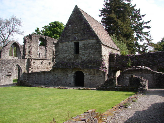 Inchmahome Priory Ruin